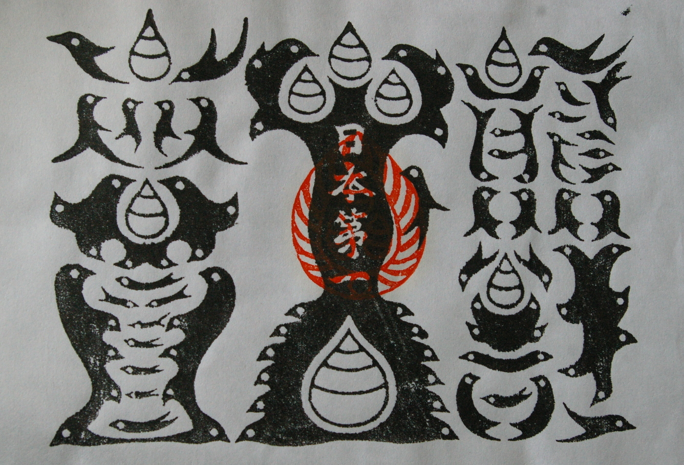 Kumano-Goouhuda of Kumano Honguu Taisha.